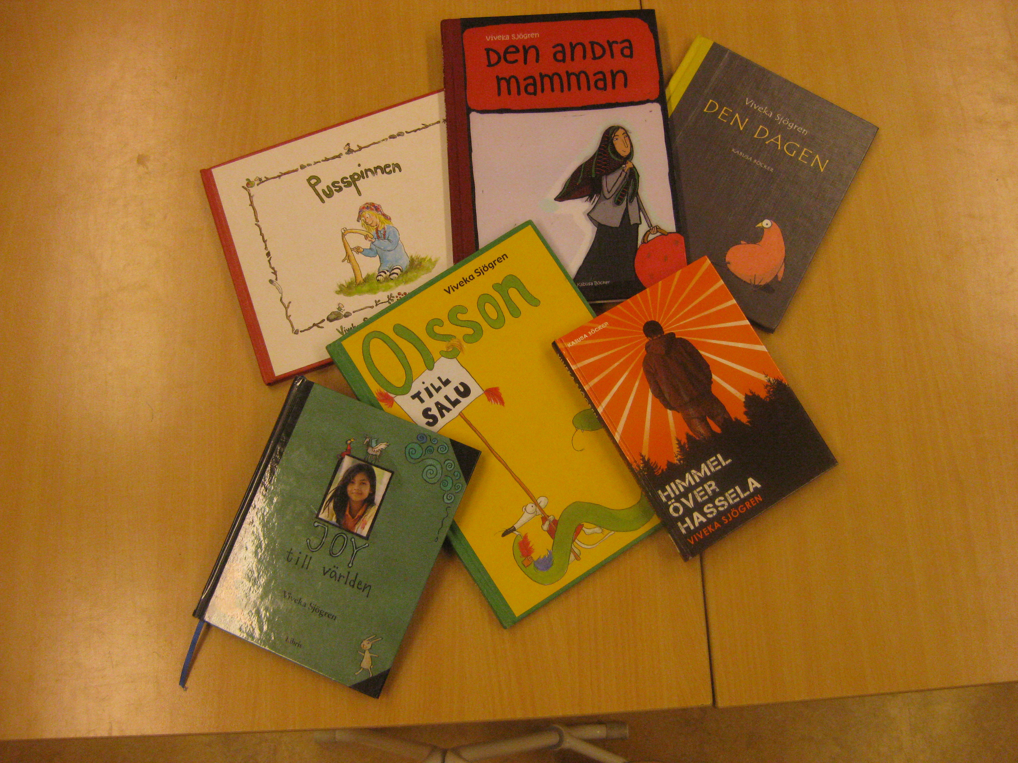 A small collection of the many books written by the swedish author Viveka Sjögren.